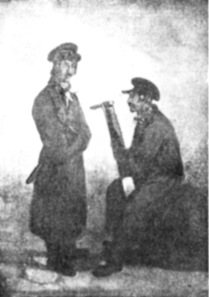 Image from Z. Gloger's "Encyklopedia staropolska" Drwale warszawscy w porze letniej. Z obrazu Pęczarskiego, 1840 r..JPG